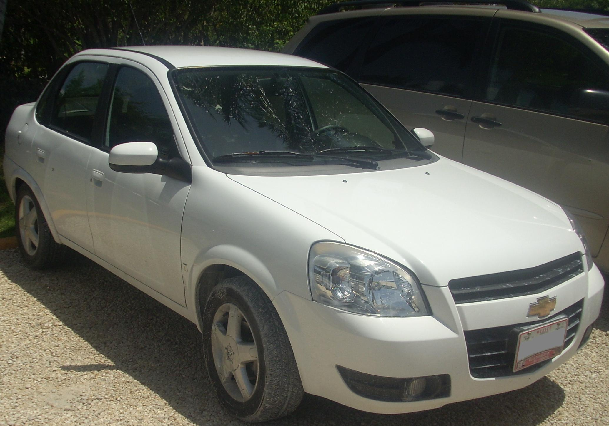 2009 Chevrolet Chevy photographed in Cancun, Quintana Roo, Mexico